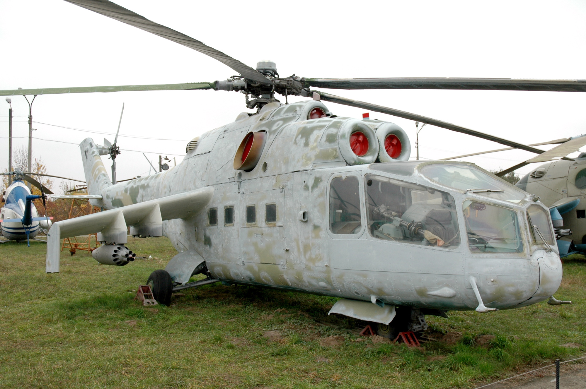 Mil Mi-24A attack helicopter (Kyiv, Ukraine)